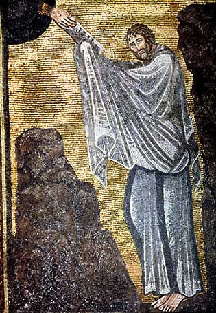 Moses with the Ten Commandments